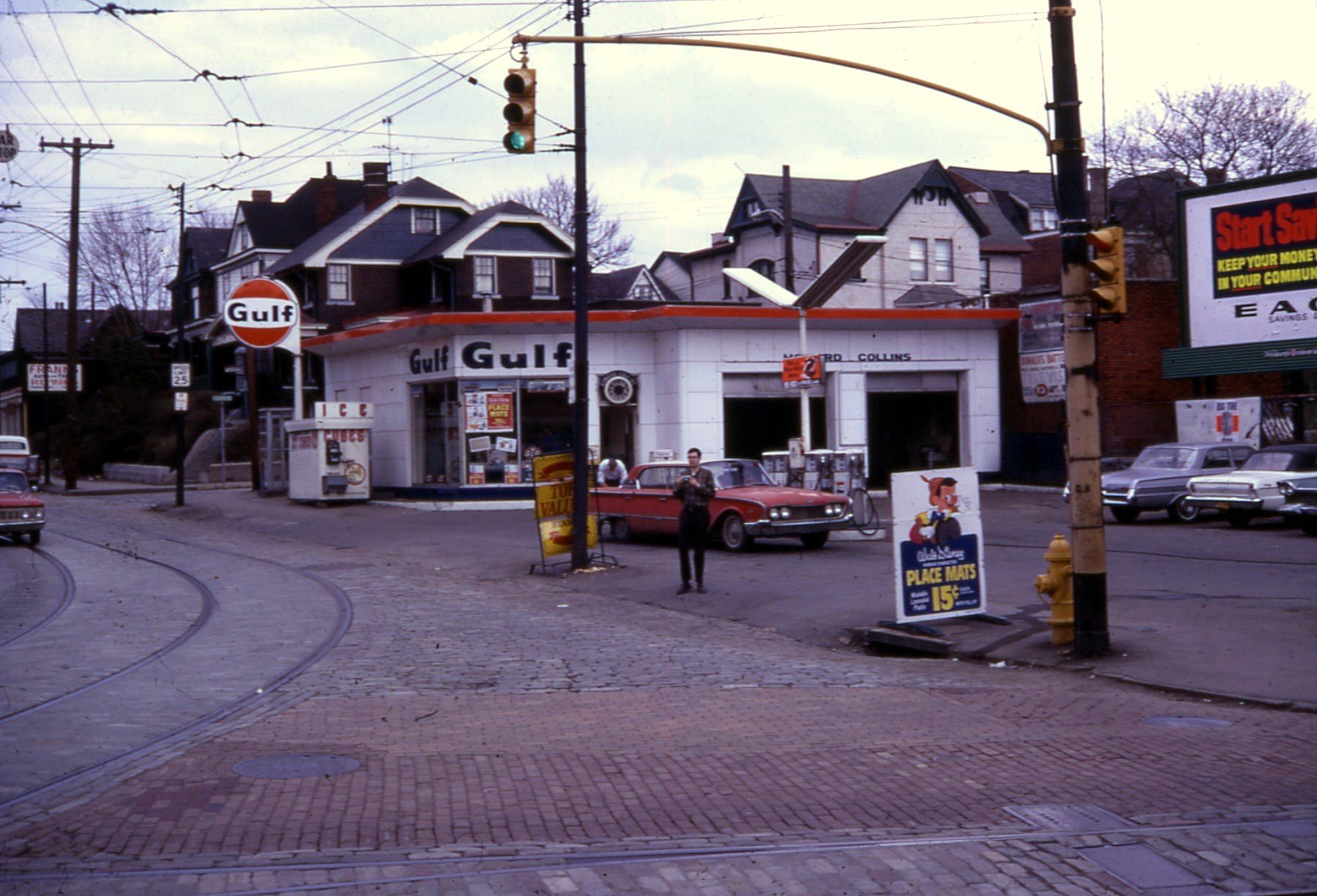 19680331 12 Bradley Clarke Arlington Ave. @ Brownsville Rd.